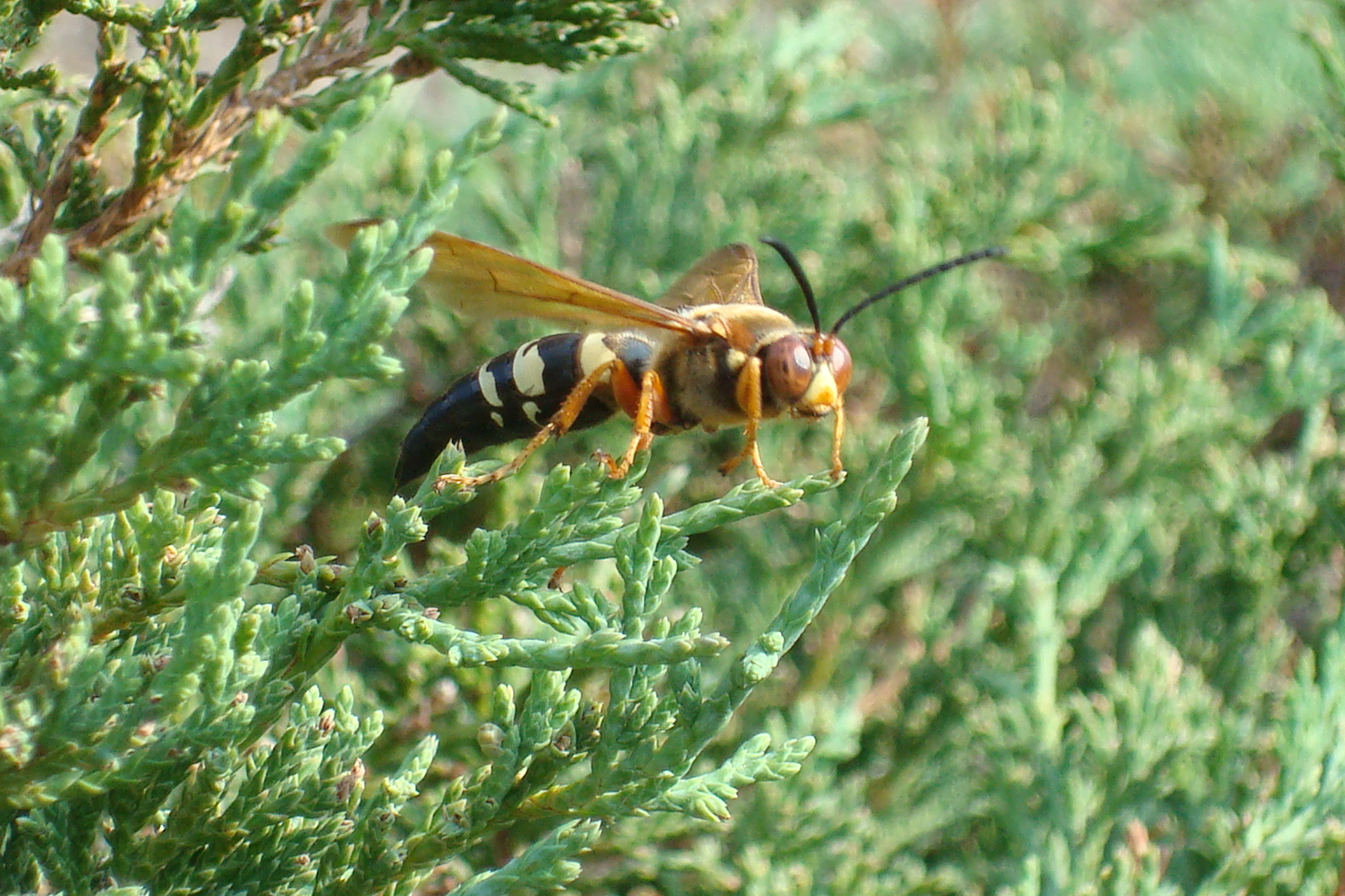 A male eastern cicada killer guarding its territory and looking for females with which to mate - Picture taken by Nicholas Bonawitz, August 2008, Purdue University campus, West Lafayette, Indiana, USA.